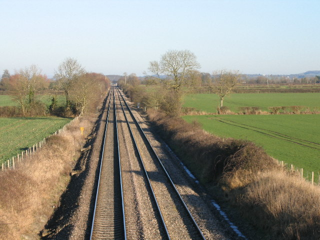 Westbury-London Main Line at Cowleaze Lane Edington.